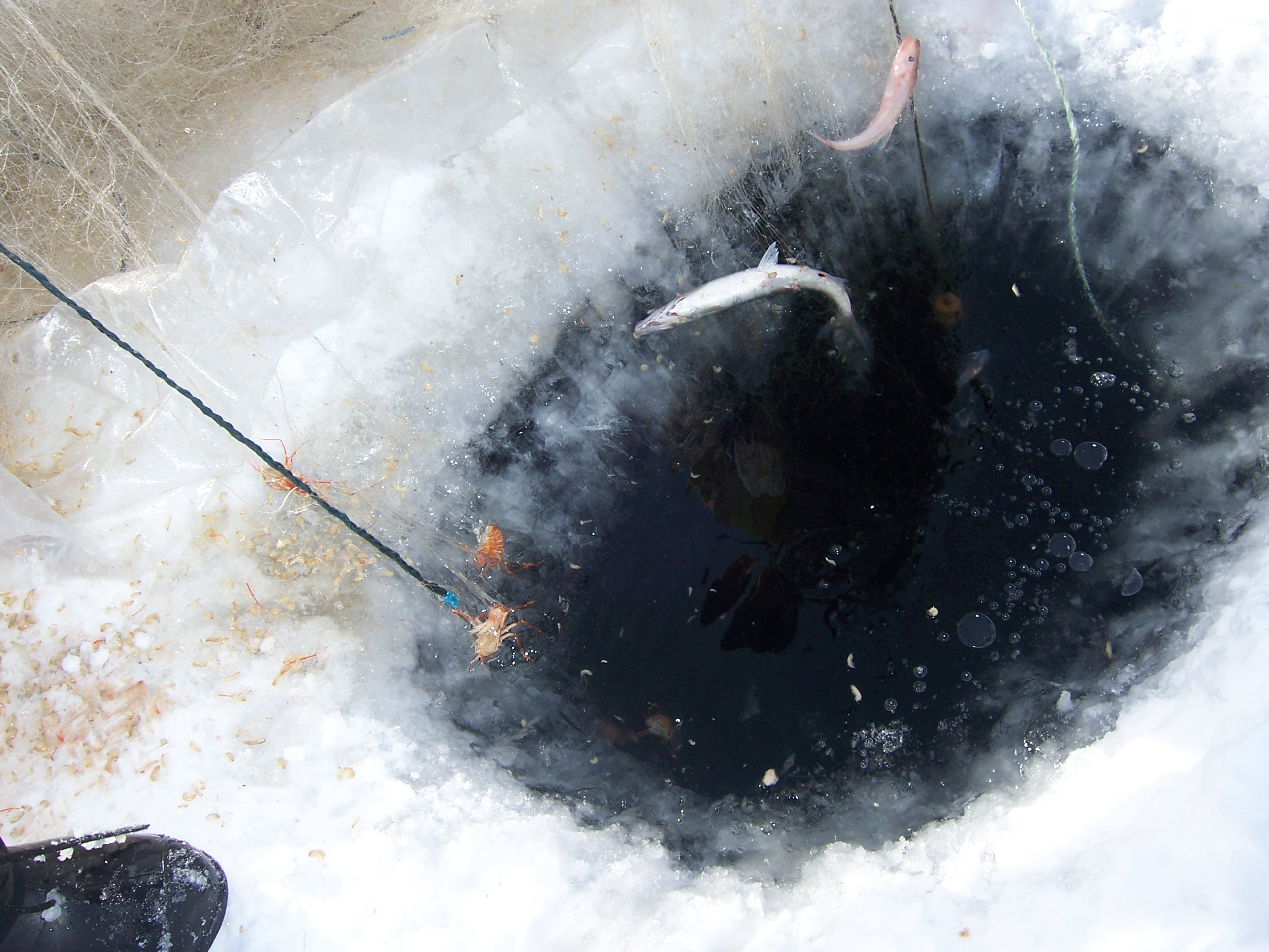 Ice-fishing on Baikal. There are two fish species, a whitefish (Coregonus — the largest whitish fish) and a golomyanka (Comephorus — the upper pinkish fish). The relatively large orange-red amphipods are Acanthogammarus reicherti.